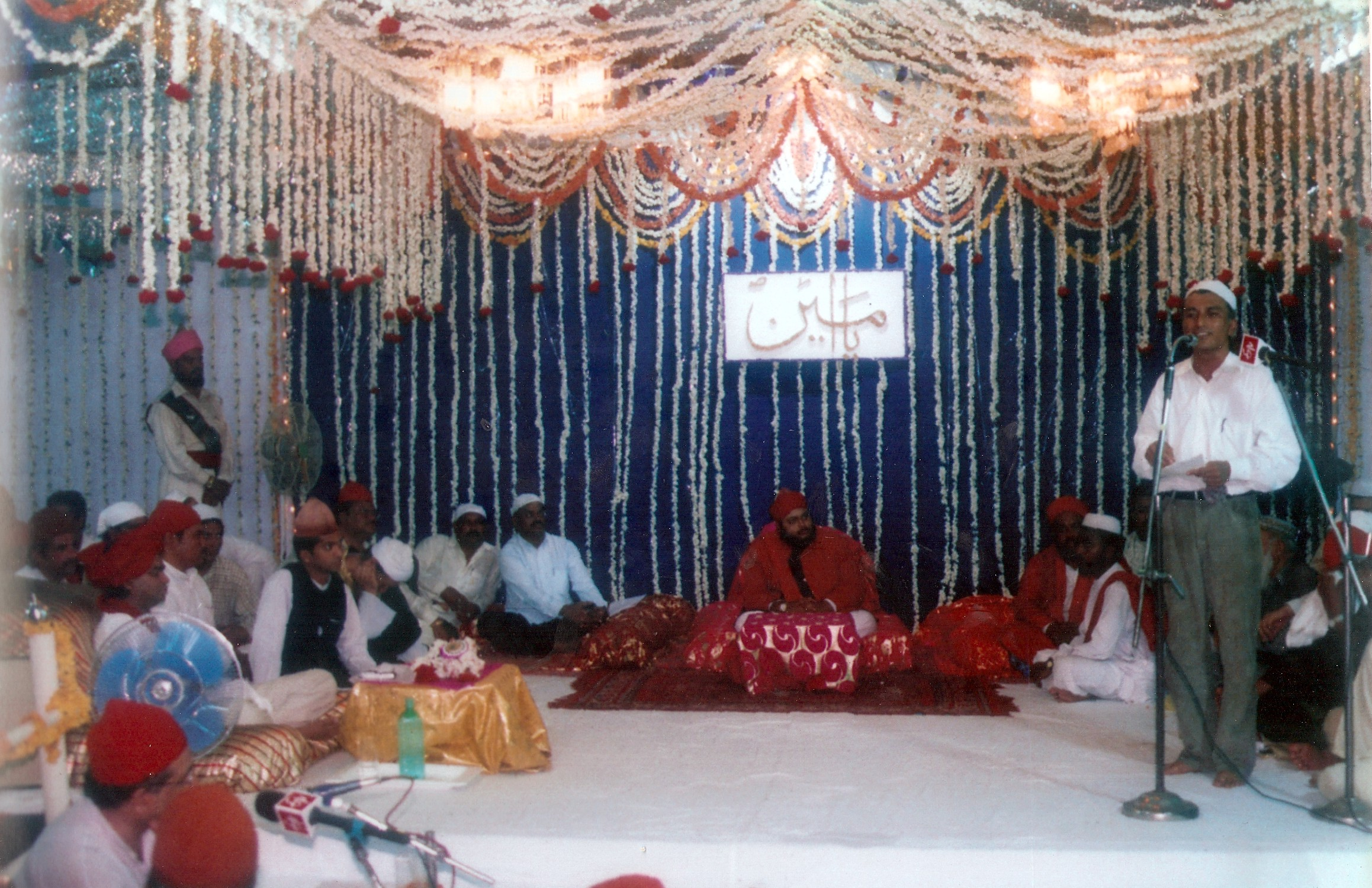 కడప షామీరియా ముషాయిరా - నిసార్ అహ్మద్